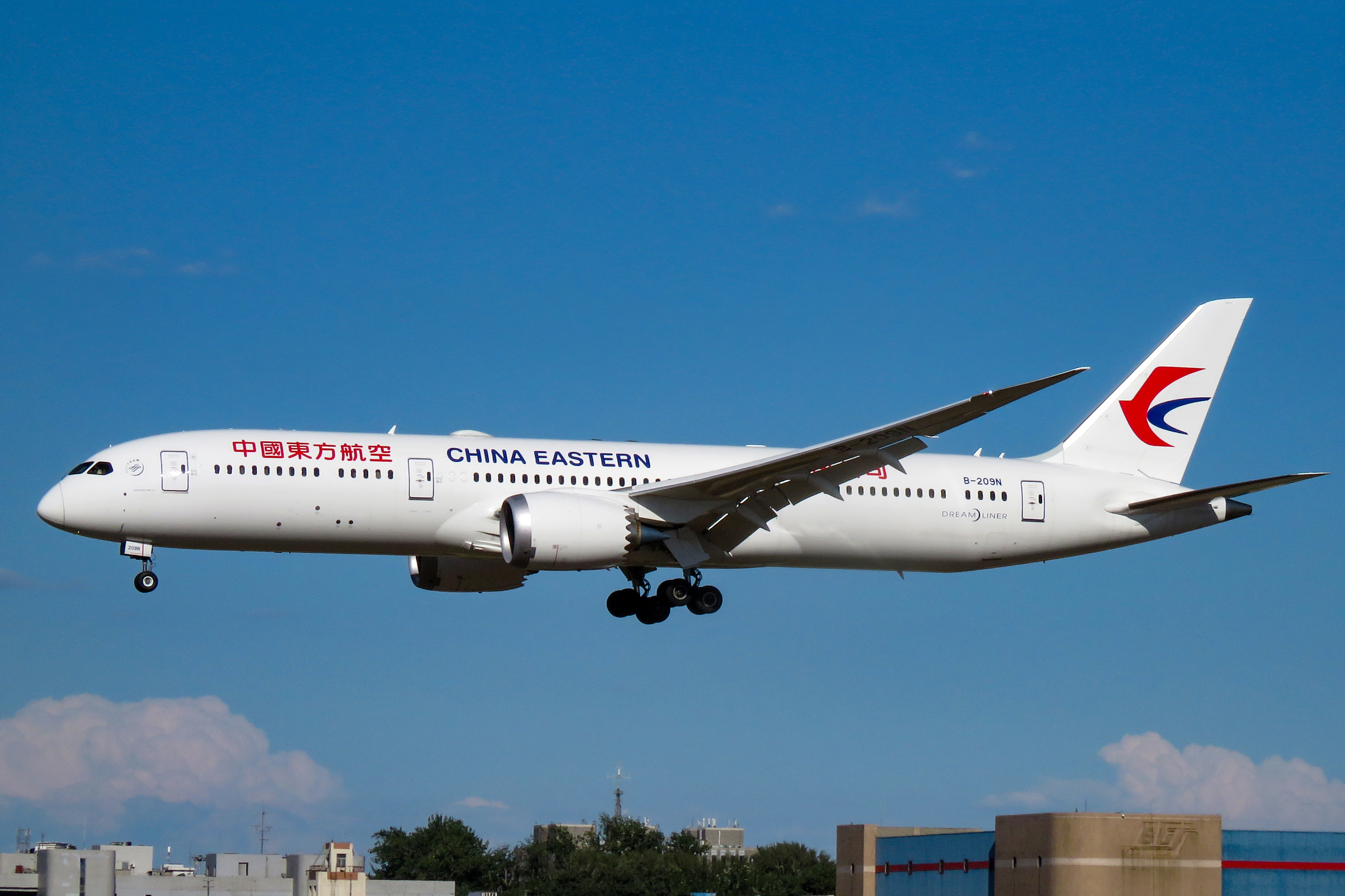 China Eastern 5717 from Kunming. Gotcha finally!